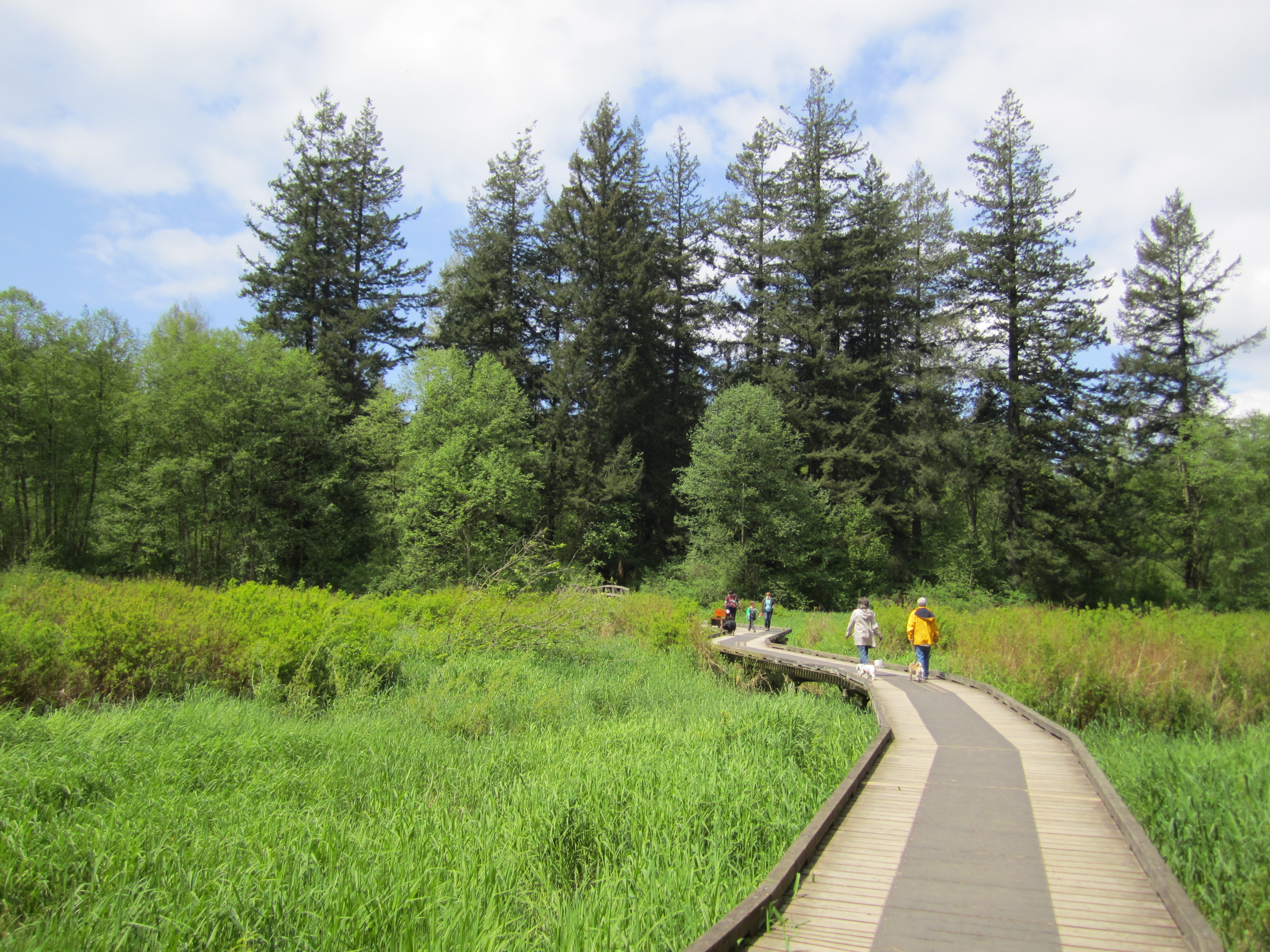 Footbridge over the 'river' (not visible) in Campbell Valley Regional Park, Langley, BC.